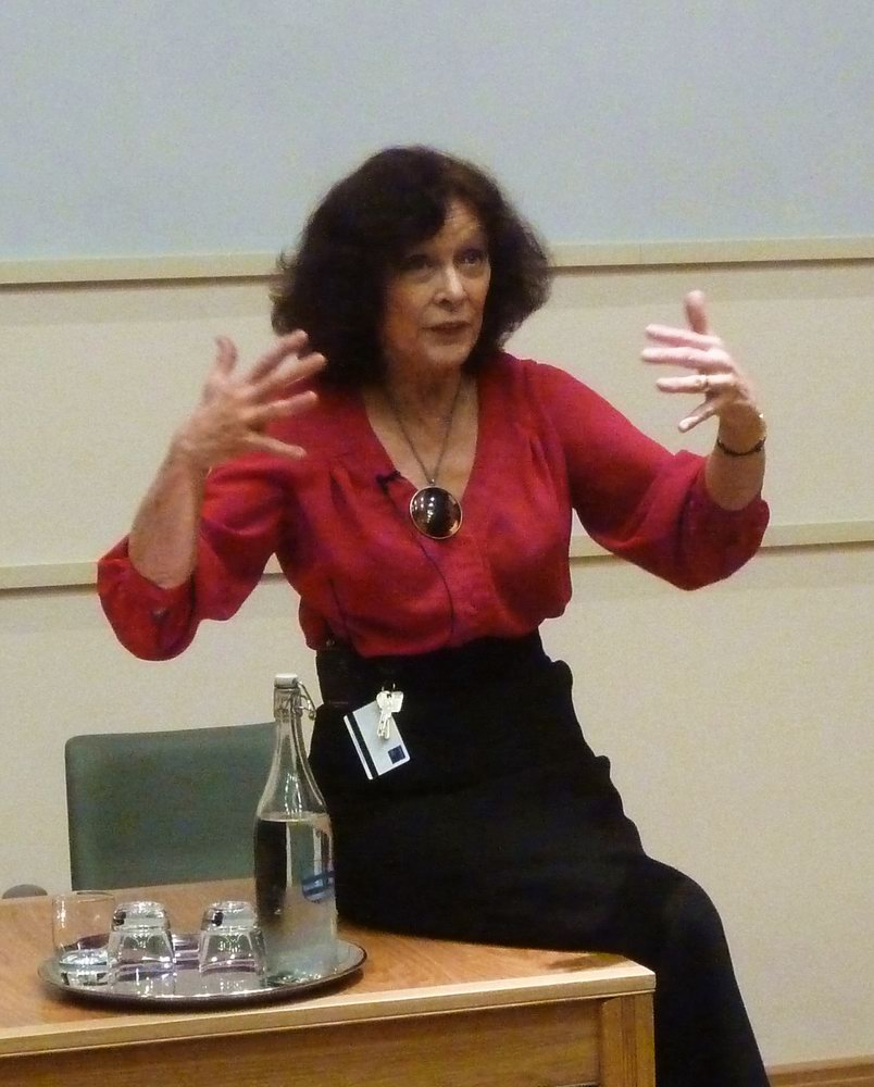 Janet Radcliffe Richards giving the 2012 Annual Uehiro Lecture ("Sex in a shifting landscape") at Merton College, Oxford.